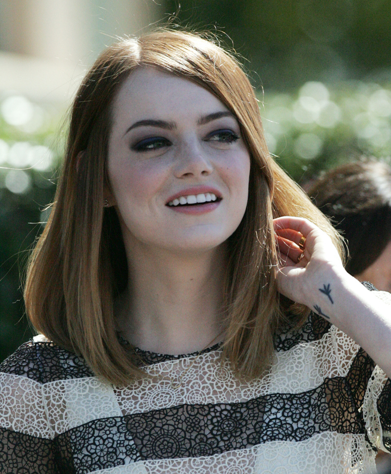 Emma Stone arrives at the premiere of "Magic In The Moonlight"